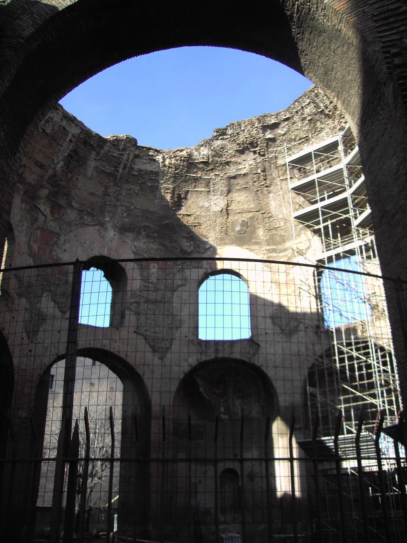 Rome, the so-called "Temple of Minerva Medica", (actually a nymphaeum from the Ancient Roman Horti Liciniani): interior view.